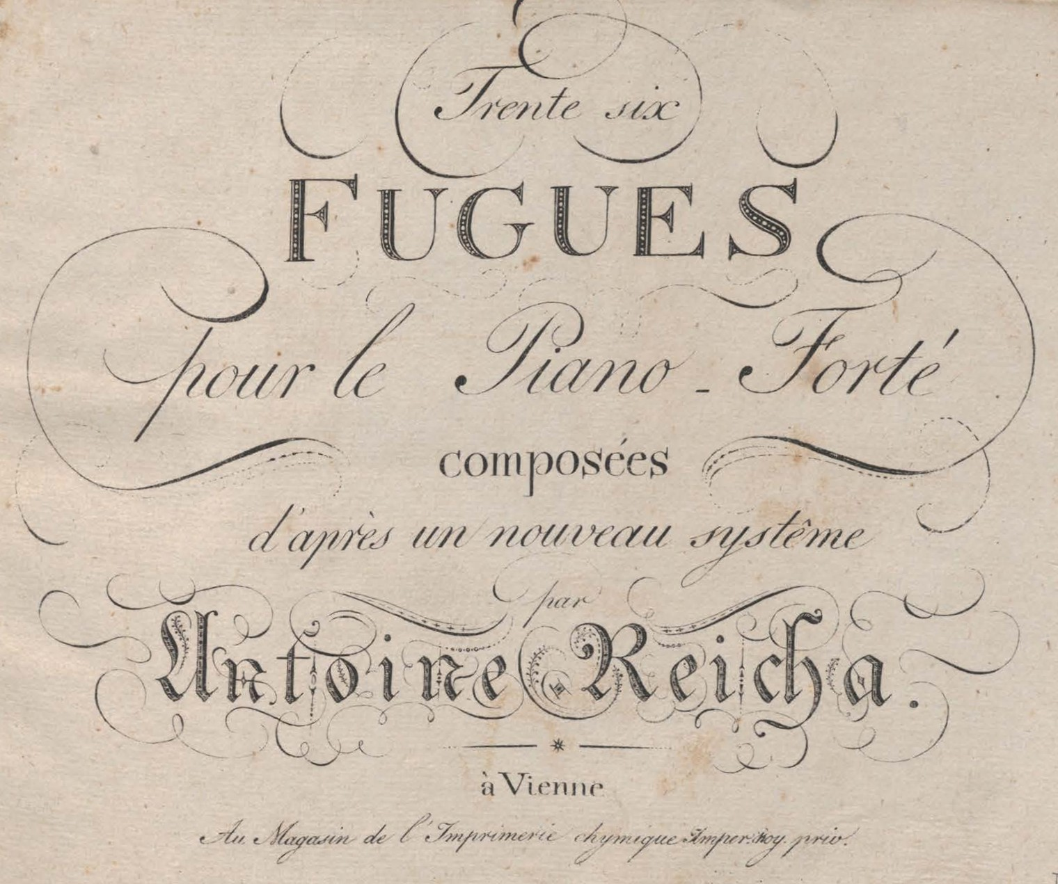 Title page of Anton Reicha's "36 Fugues" (1803), second edition (1805).